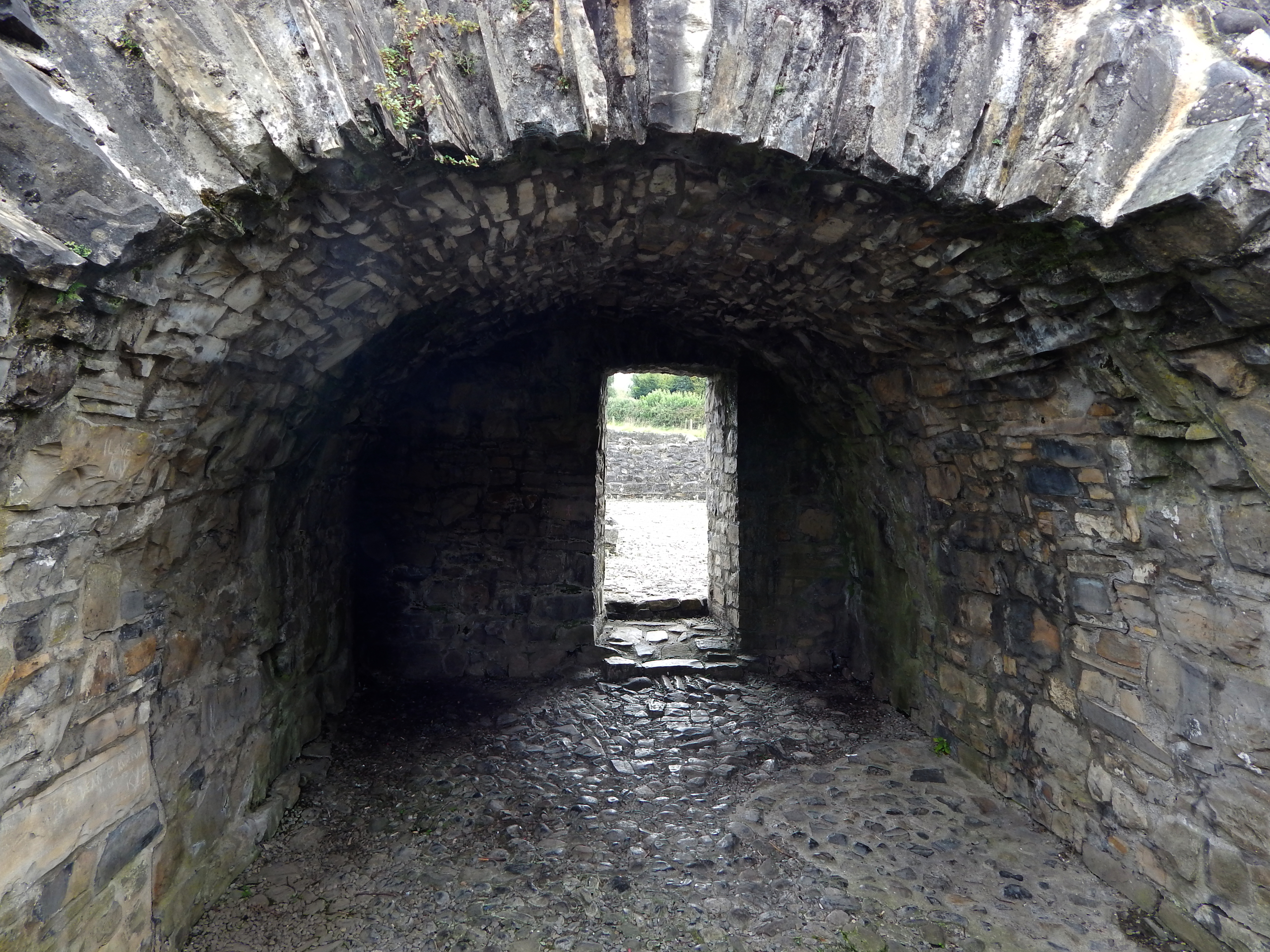 Small room inside the main building of St Johns Priory,Trim